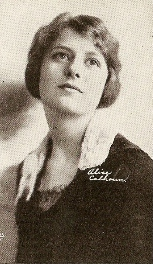 Alice Calhoun